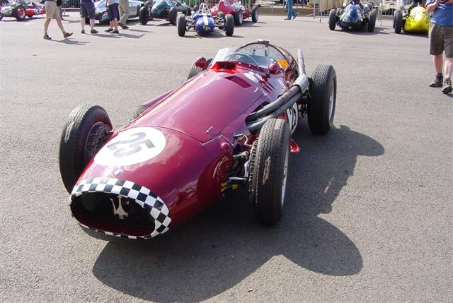 Maserati 250F, picture taken at Silverstone 2006.